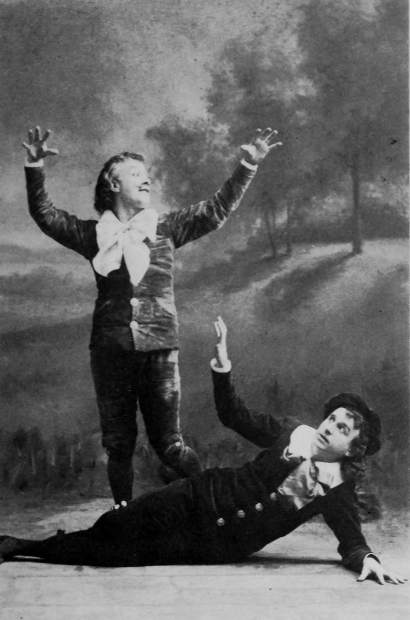 Henry Lytton and Walter Passmore as Grosvenor and Bunthorne in a 1900 Revival of Patience.